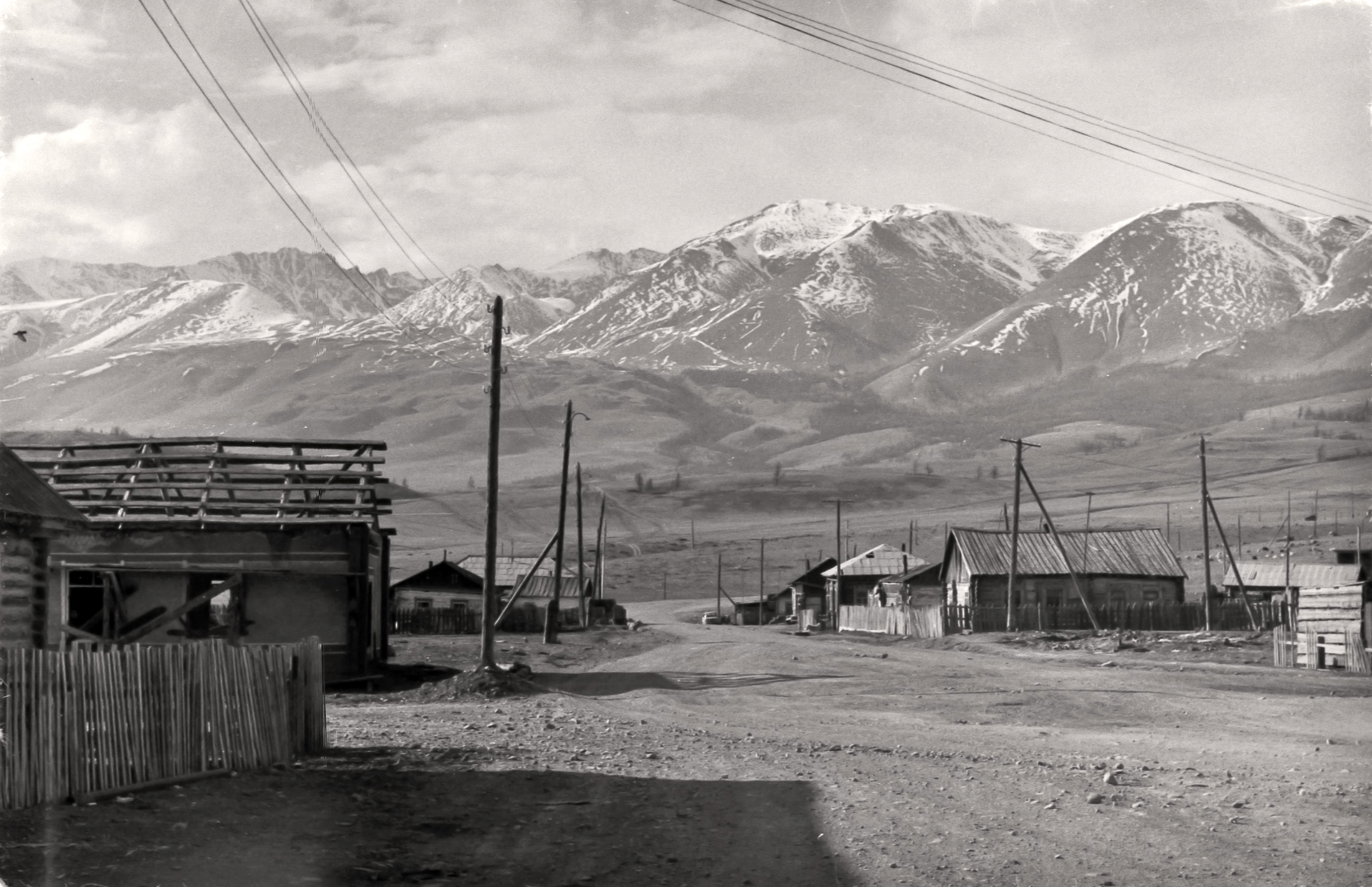 Kurai. Kosh-Agachsky District. Altai. USSR. Foto 1989.